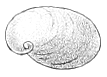 Dorsal view of the shell of Schizoglossa novoseelandica.